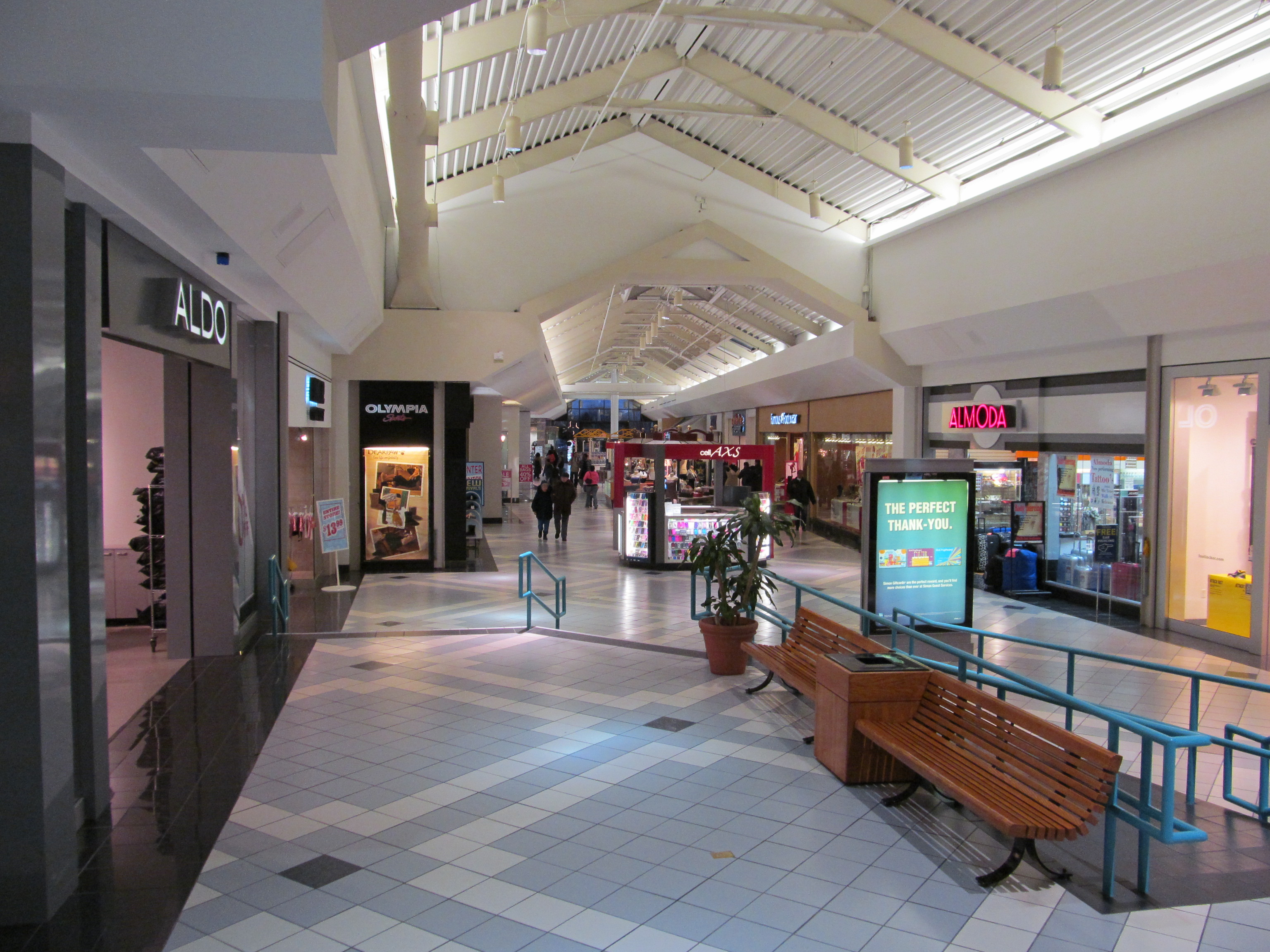 Arsenal Mall, Watertown Massachusetts